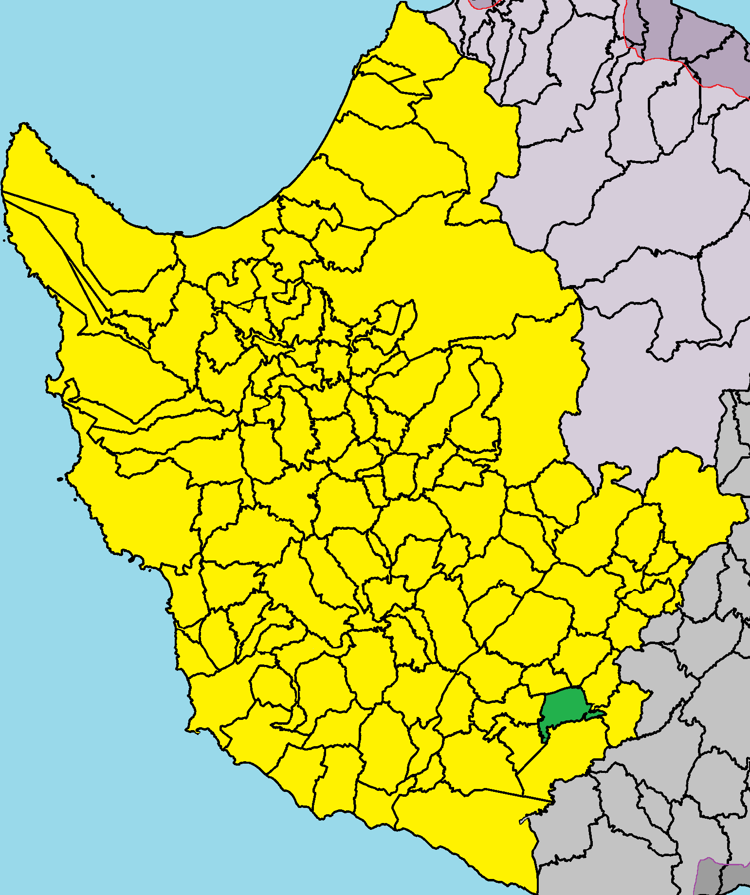 Maronas in Paphos District.